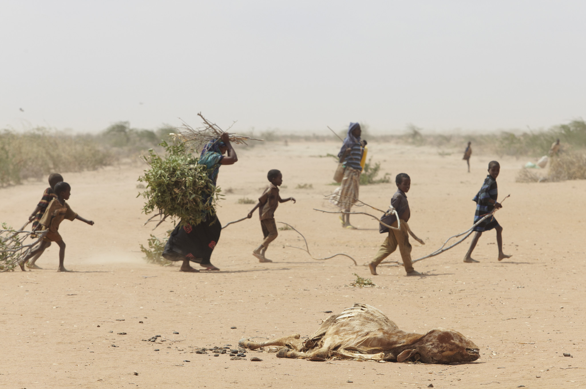 On the outskirts of Dadaab, where many refugees are sheltering as the main camps are overcrowded, a family gathers sticks and branches for firewood and making a shelter to protect them from the elements and wild animals. The carcasses of animals which have perished in the drought are strewn across the desert. Photo: Andy Hall/Oxfam